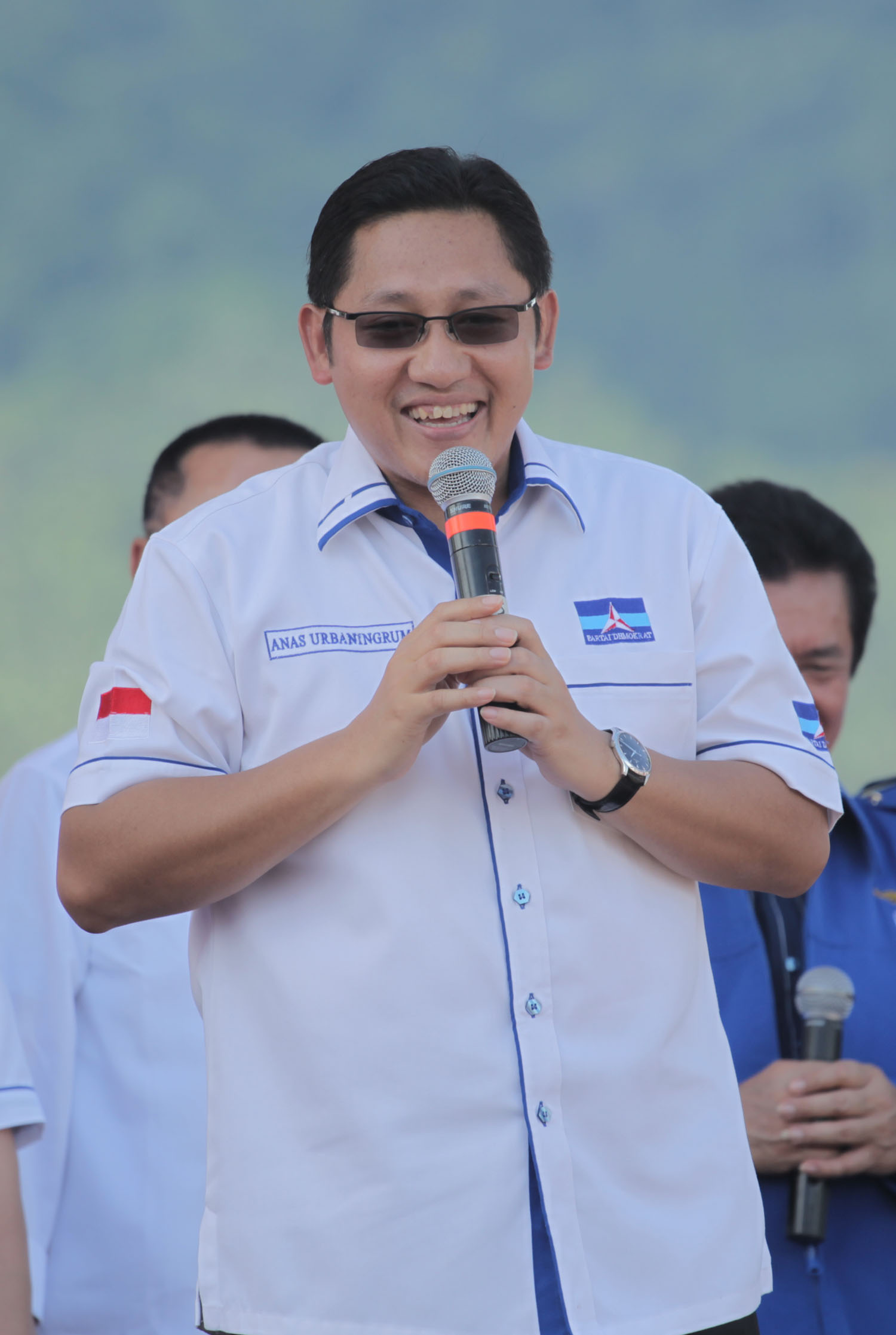 Anas Urbaningrum in a campaign.